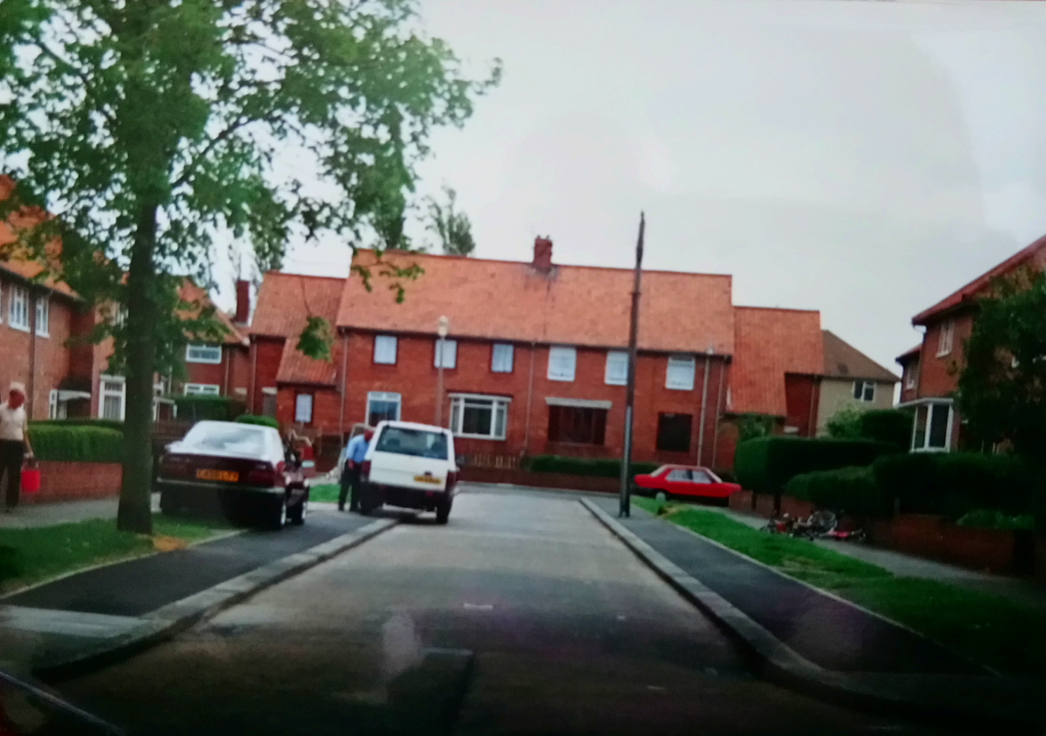 Example of early post-war housing in Lobley Hill. First residents included many from the Gun Site area which had been RTC site